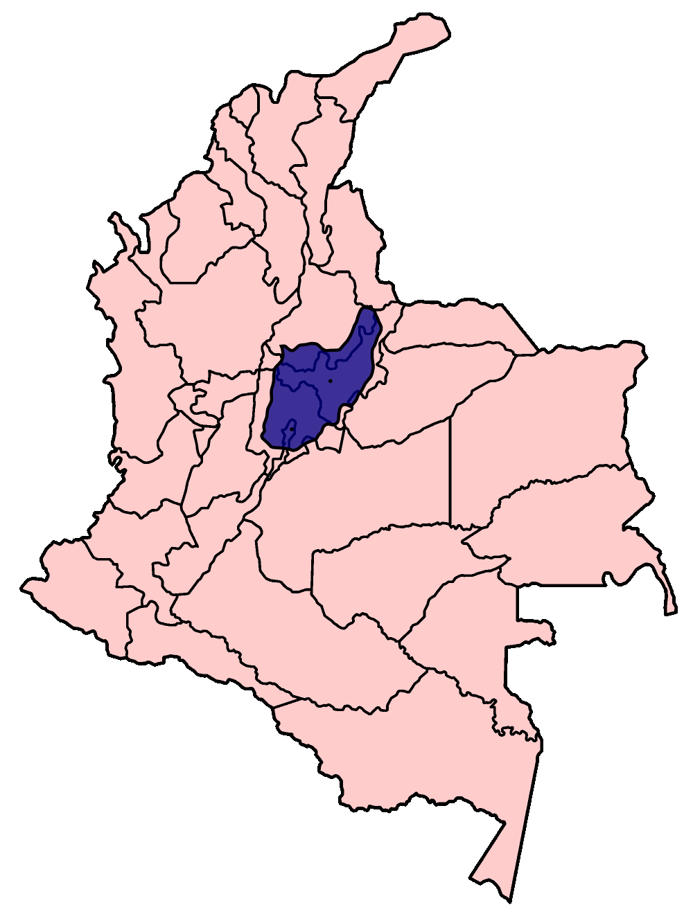 Pink: political map of the current Republic of Colombia. purple: area of the Muisca empire at its peak (1535).